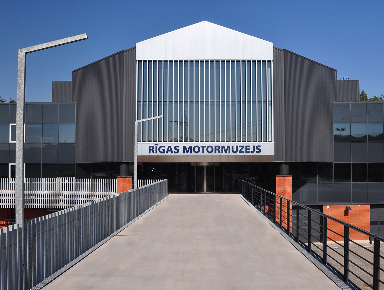 Riga Motor Museum in 2016. Rīgas Motormuzejs 2016 gadā.